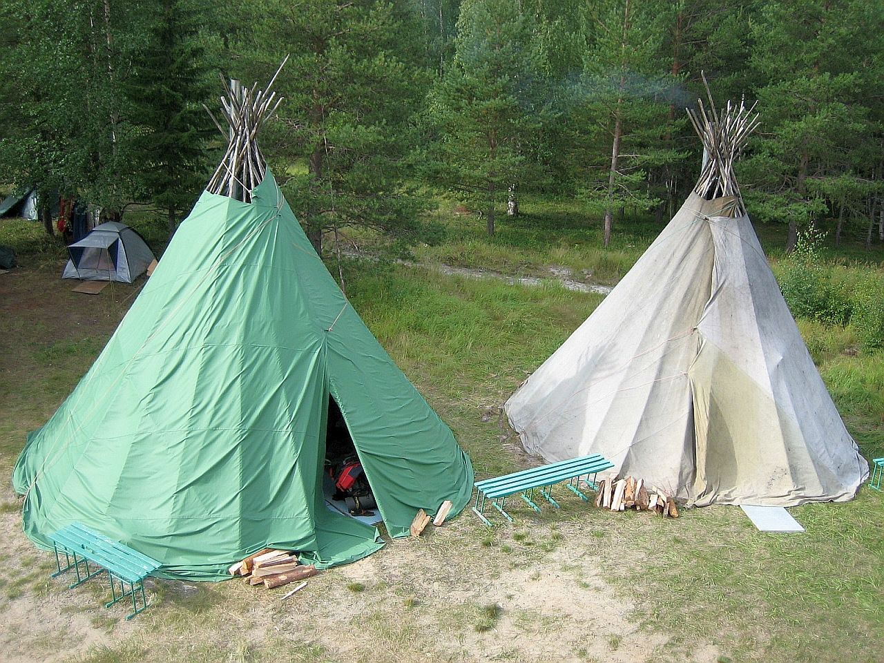 Two chums in western Siberia, one with a more traditional cloth cover and a modern rubber coated cover (green).